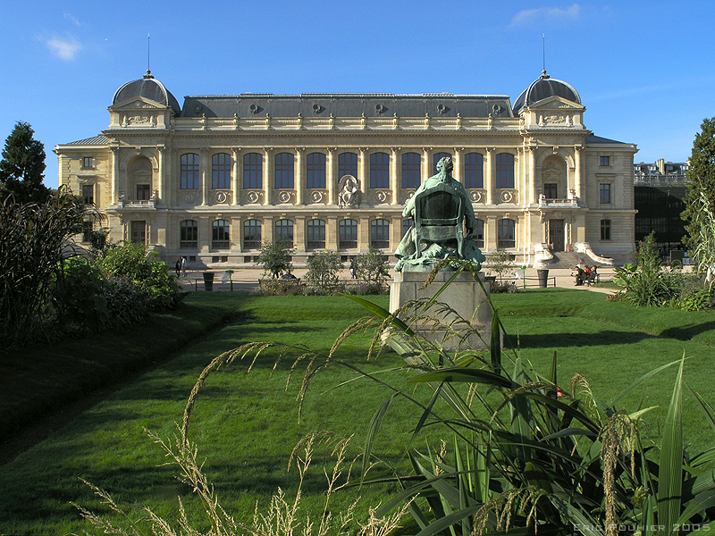 Façade of the grande galerie de l'Évolution (Gallery of Evolution), which is a zoology museum building belonging to the French National Museum of Natural History. The building is located in the Jardin des plantes in Paris.